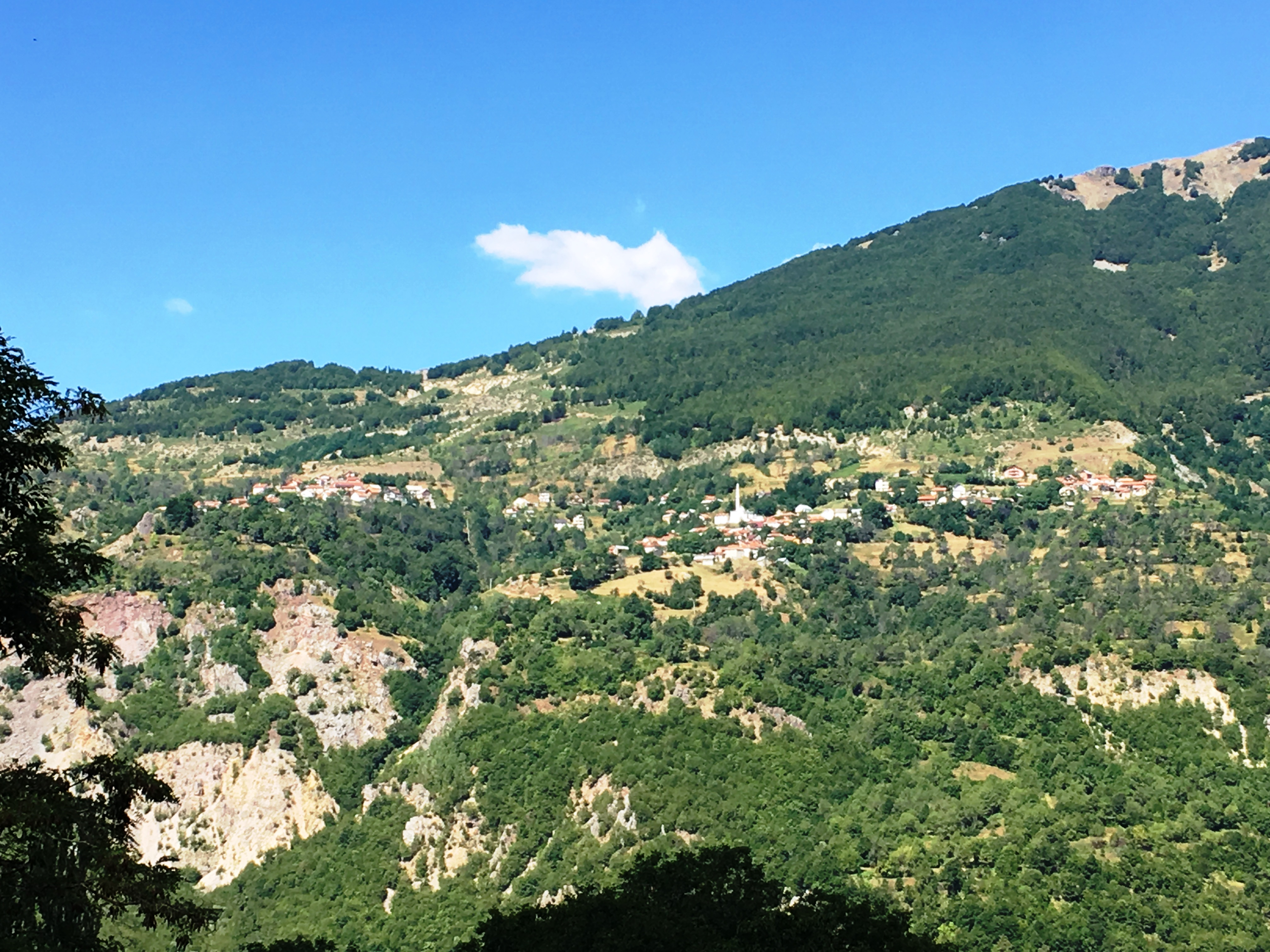 Panoramic view of the village of Vrbjani